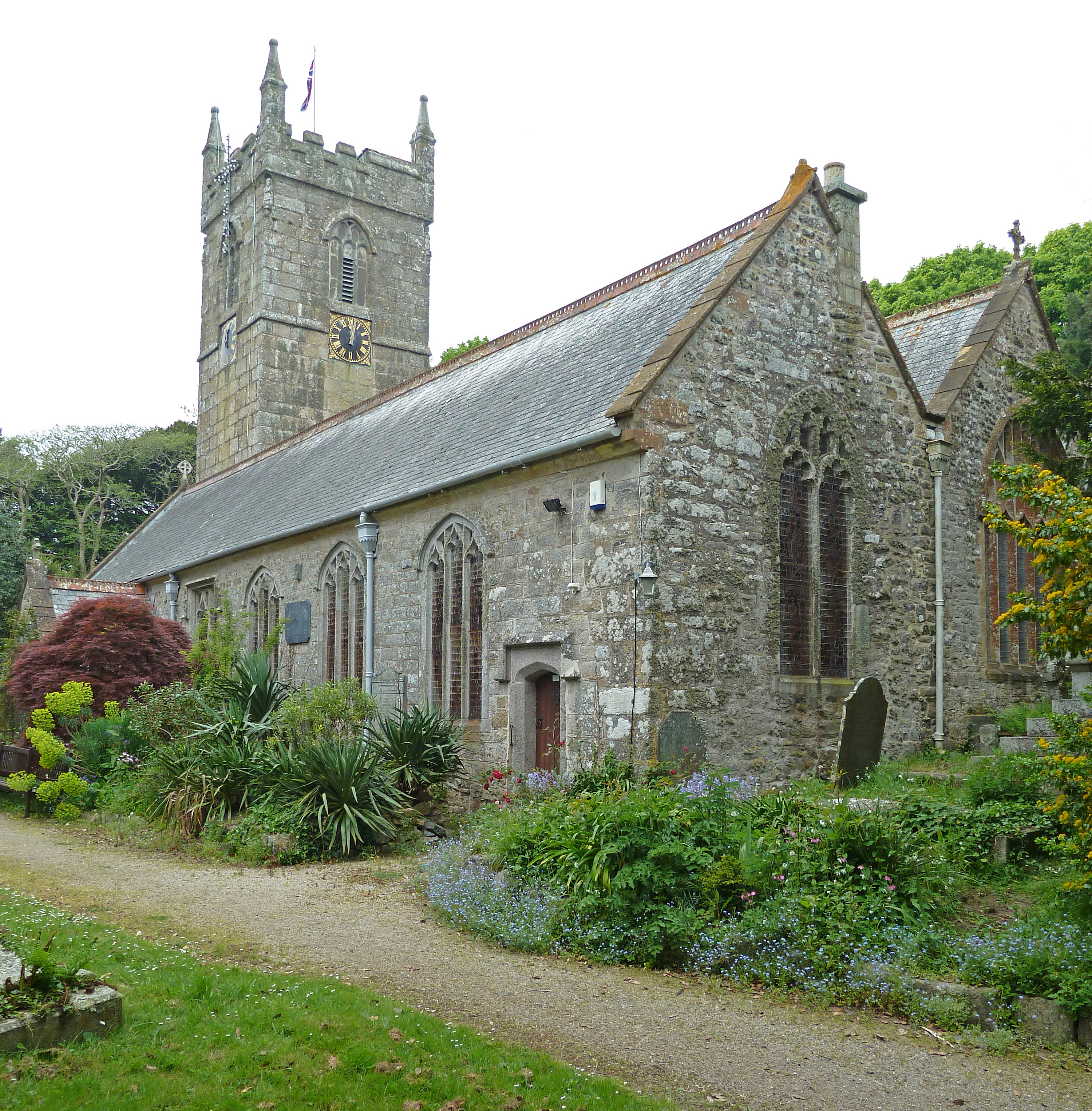 Gulval Church near Penzance